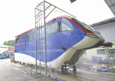 KL monorail new 4-car train undergoing water-test